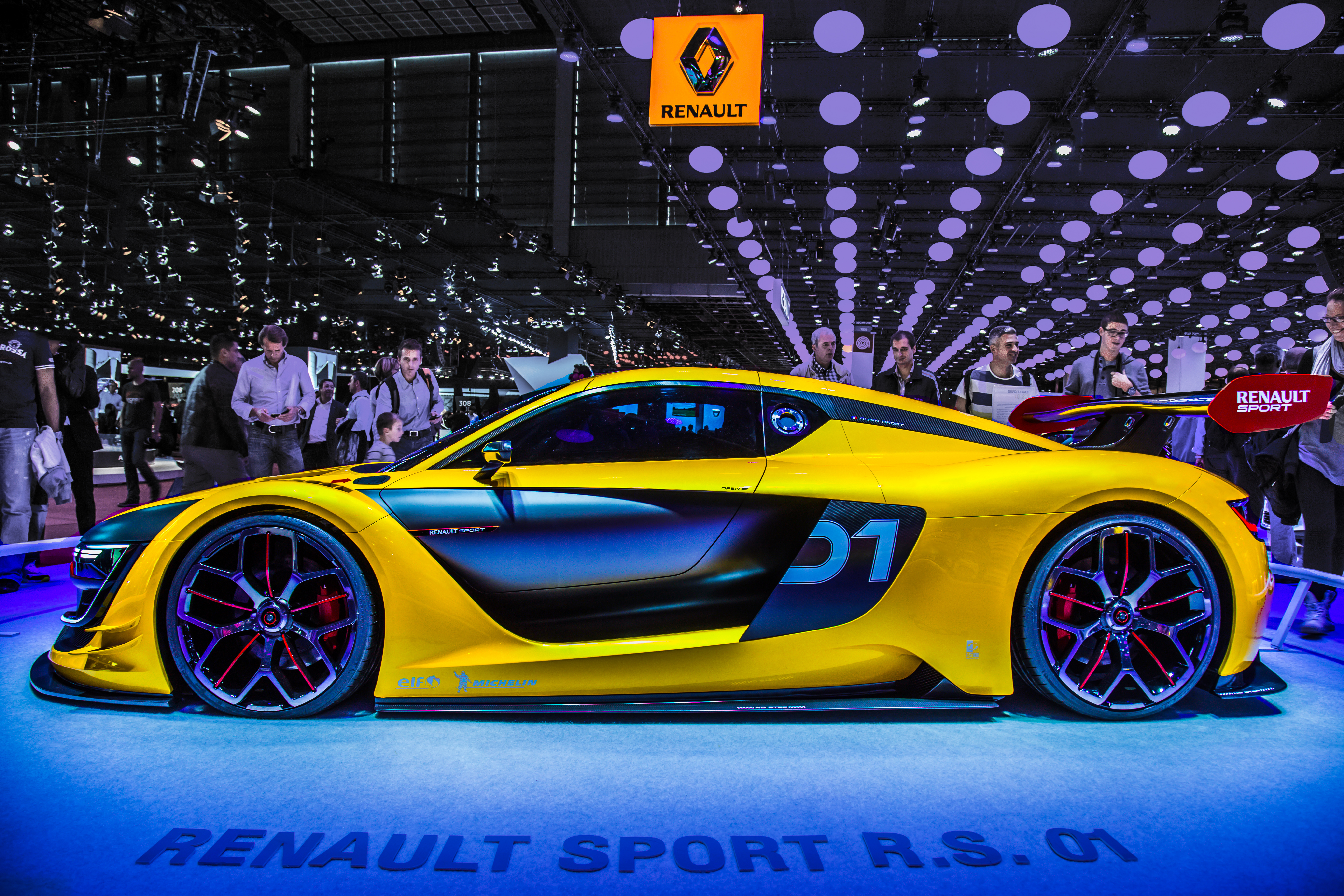 The 2014 Paris Mondial de l'Automobile or 2014 Paris Motor Show, from 4 October to 19 October, 'Automobile and Fashion' theme.